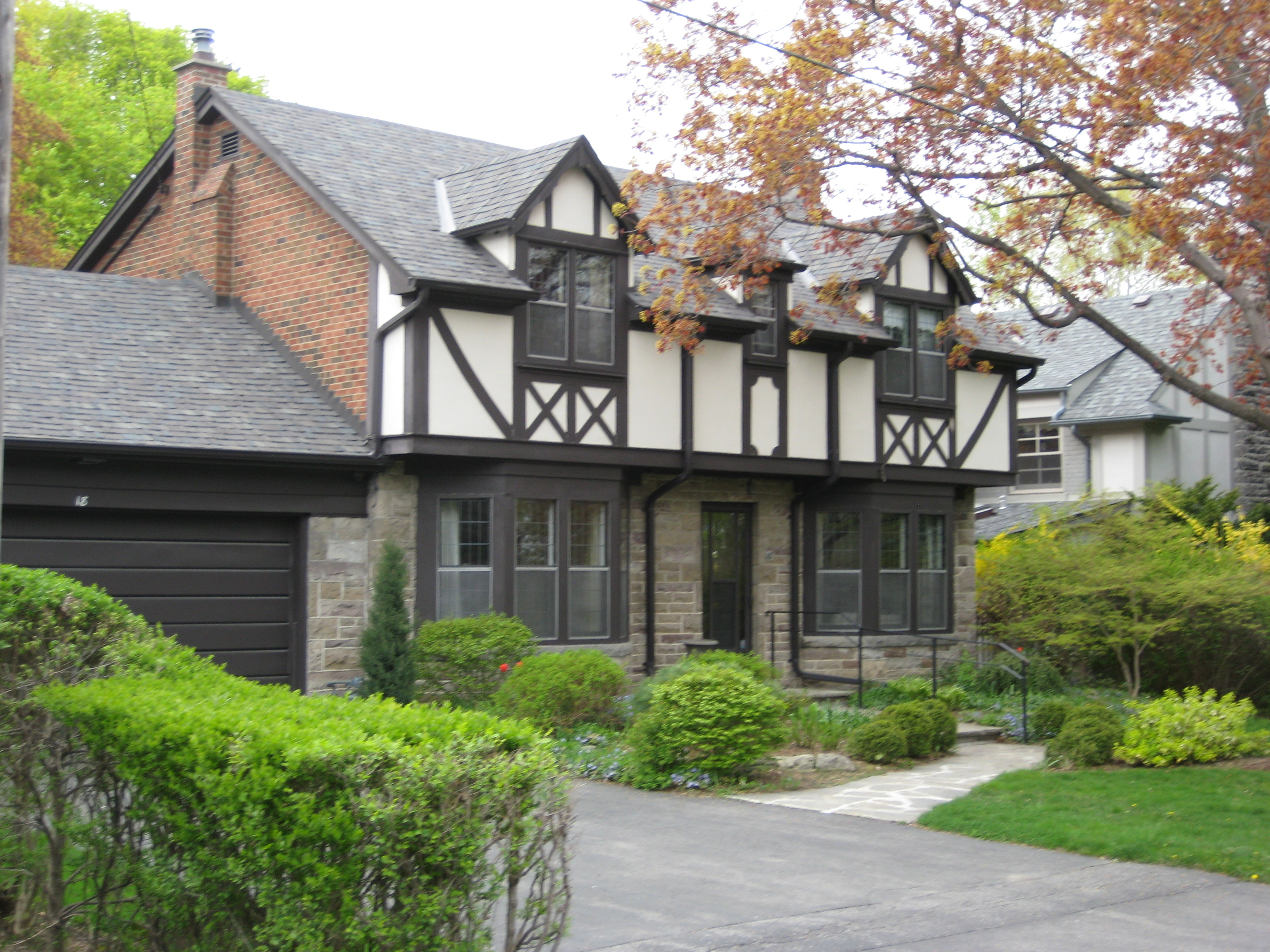 Humber Valley Village house